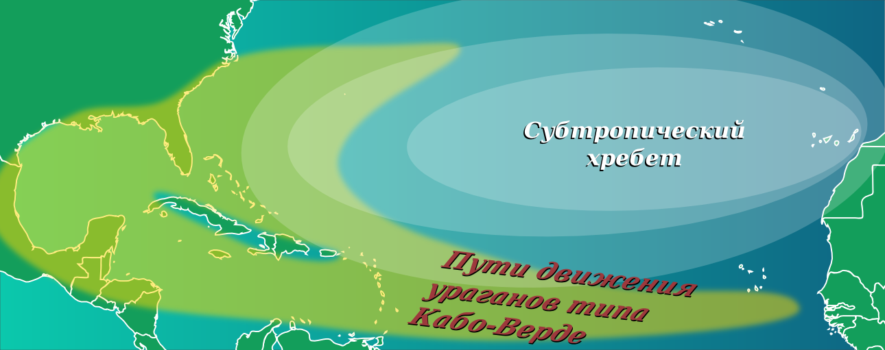 Graphic showing the typical track of a Cape Verde-type hurricane. The tracks begin south of Cape Verde in the eastern Atlantic Ocean.